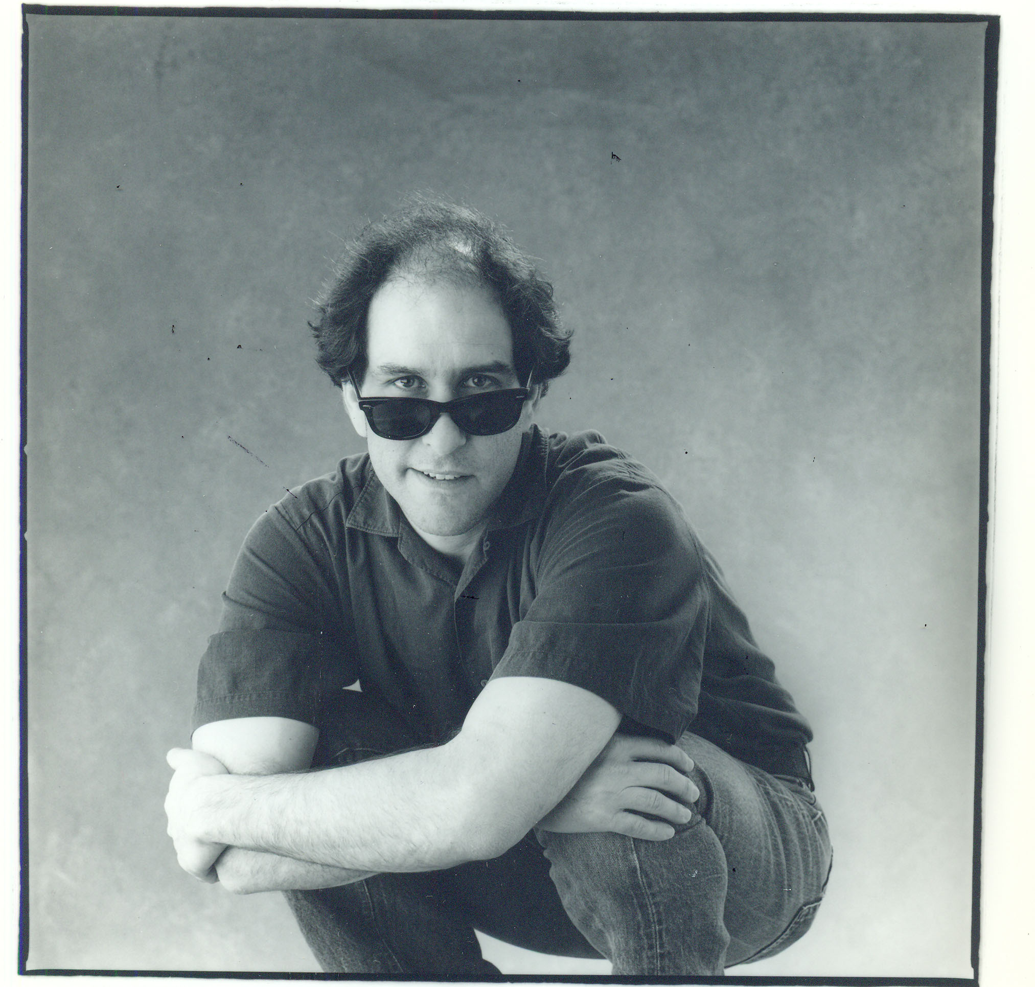 Writer Leonard Koren in San Francisco, California. 1985 photograph taken by Nancy Wong on Center Street in South Park